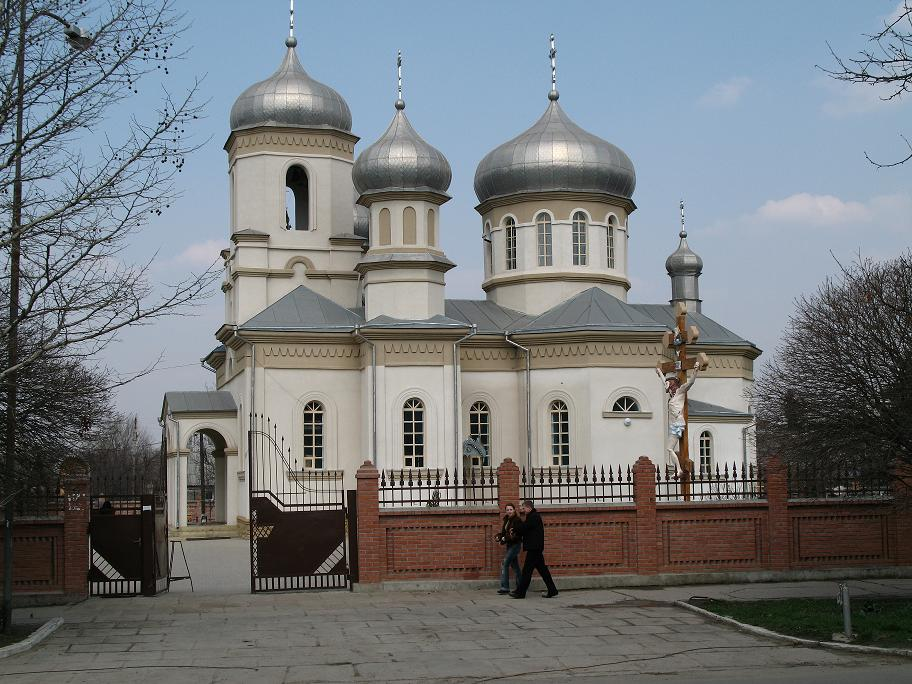 The church of St.Dumitru, Anenii Noi town, the Republic of Moldova, author:Caraus Veaceslav